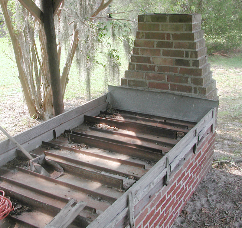 Evaporator with baffled pan and foam dipper for making ribbon cane syrup. Three Rivers Historical Society Museum at Browntown, South Carolina Image copyleft: Image taken by me, released under GFDL, Pollinator 02:36, 25 January 2006 (UTC)